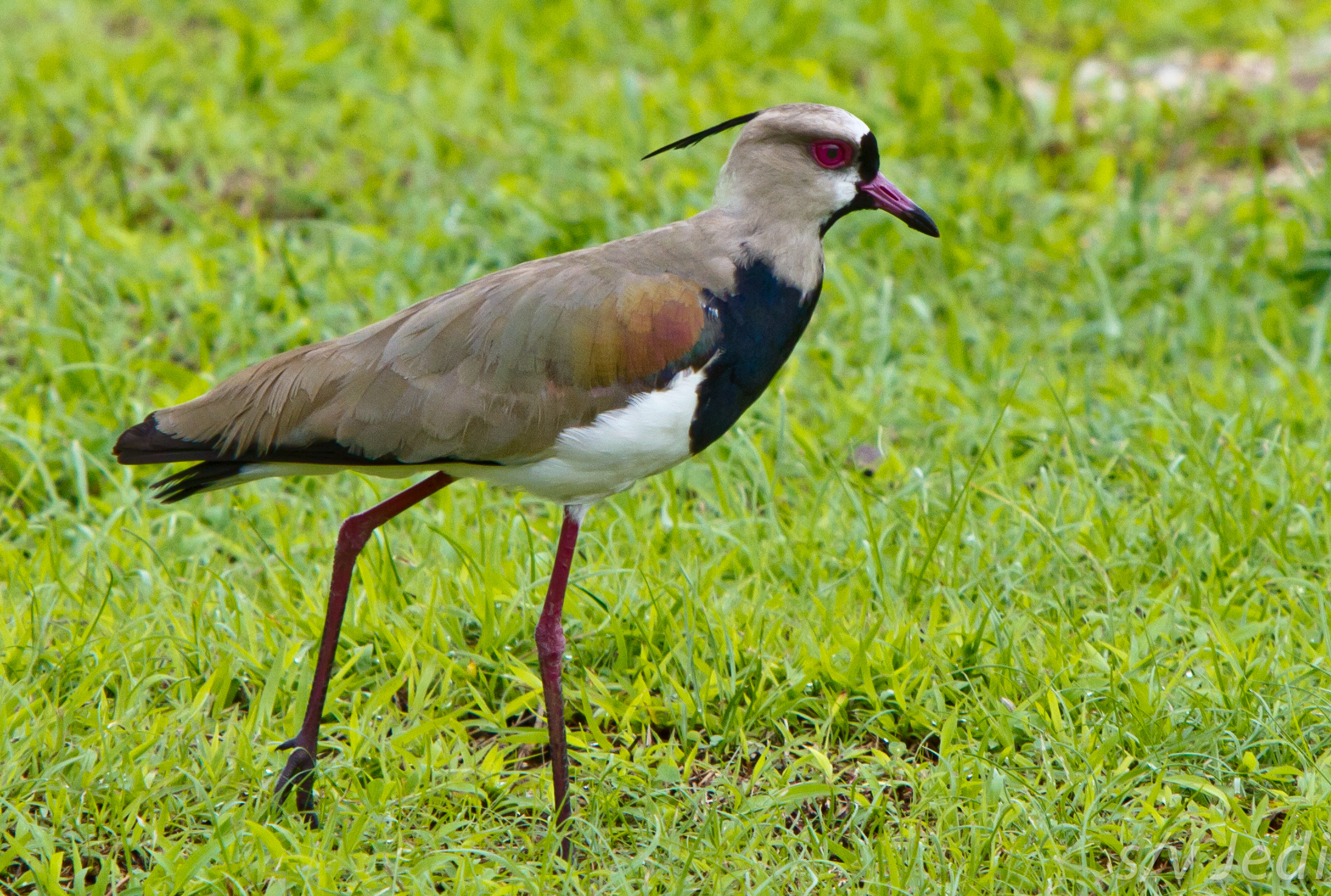 Southern Lapwing in Fort Sherman, Colon, Panama